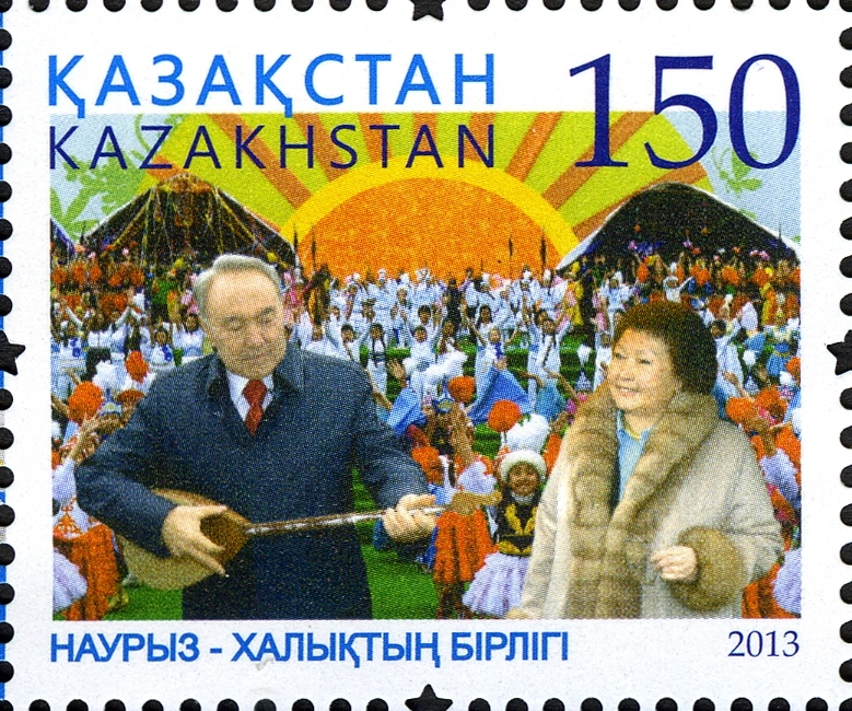 Happy holiday Nauryz